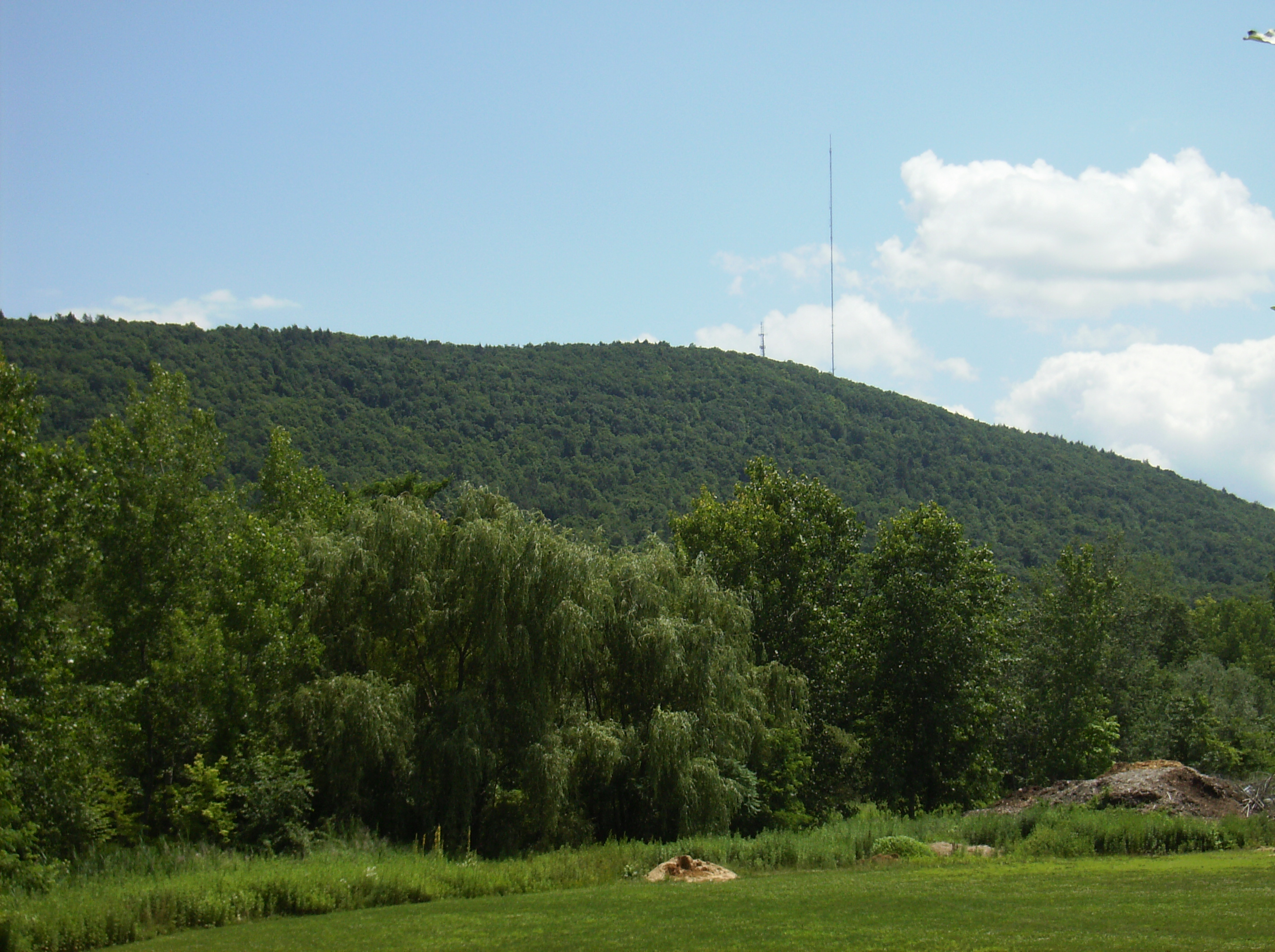 The western face of Illinois Mountain, viewed from Tony Williams Park in Highland, New York.